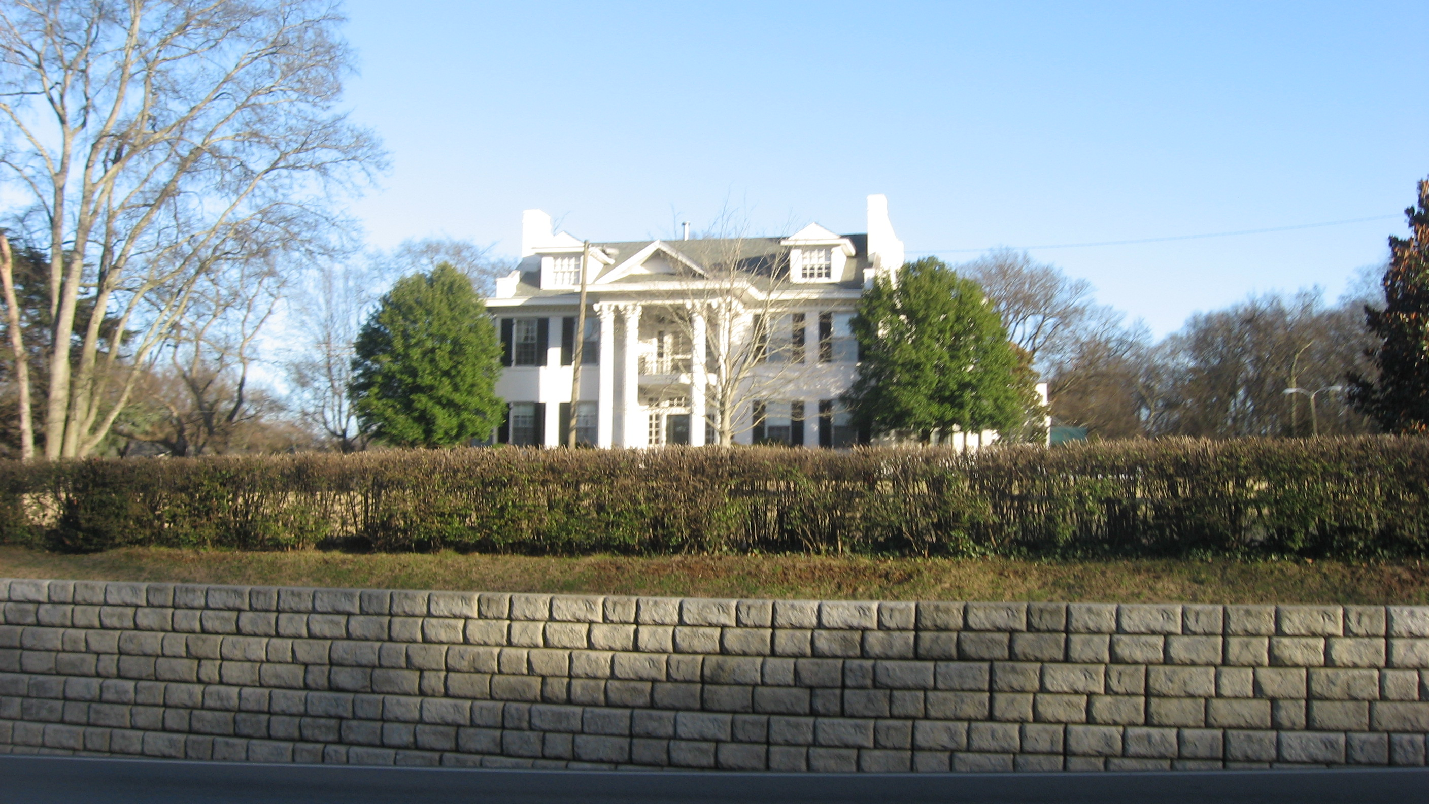 Front of the Women's Club of Nashville, the J.B. Daniel House, located at 3206 Hillsboro Pike (U.S. Route 431/State Route 106) in Nashville, Tennessee, United States. Built in 1927, it is listed on the National Register of Historic Places.